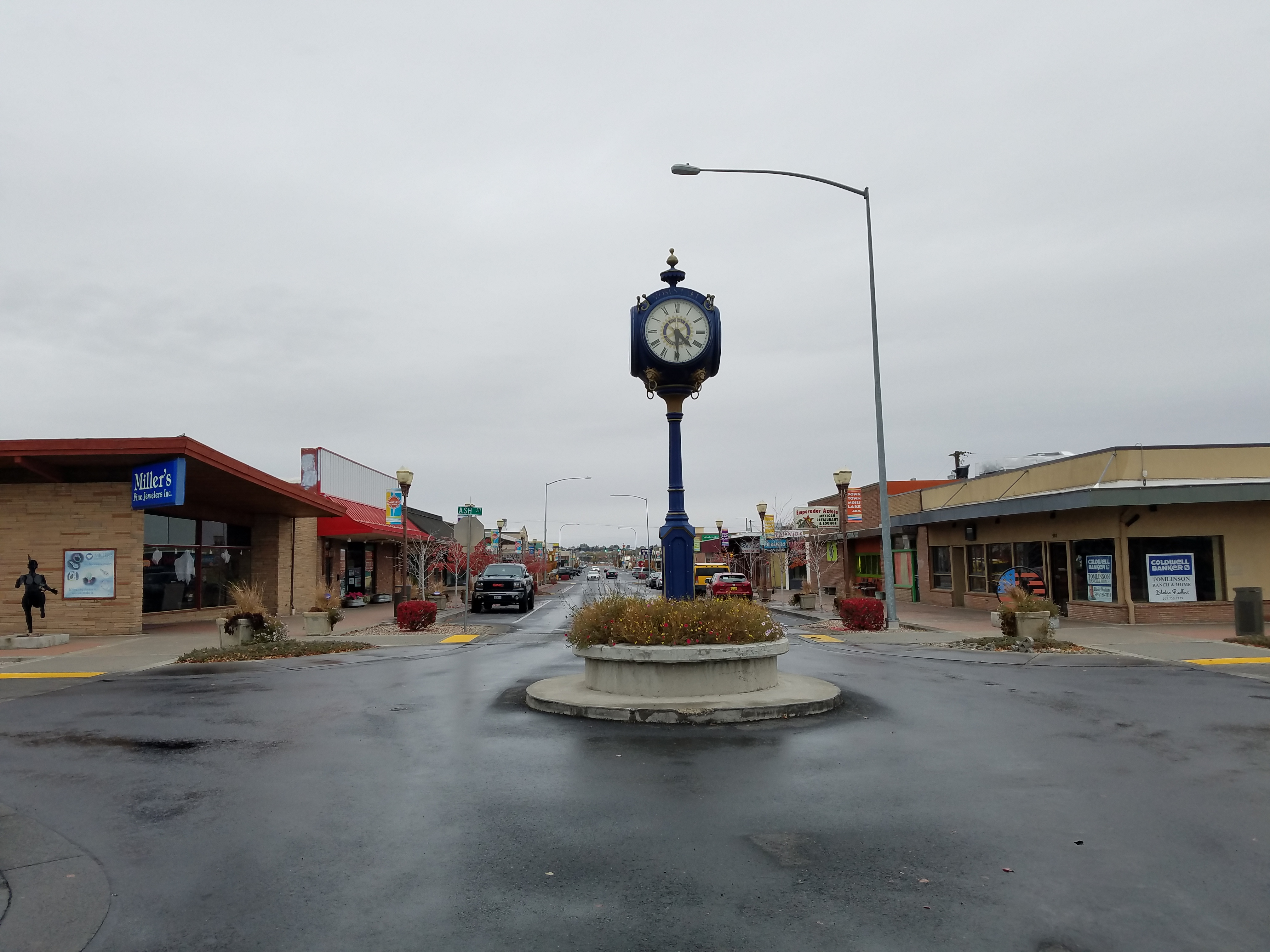 3rd Avenue in downtown Moses Lake, a city in the state of Washington, USA.